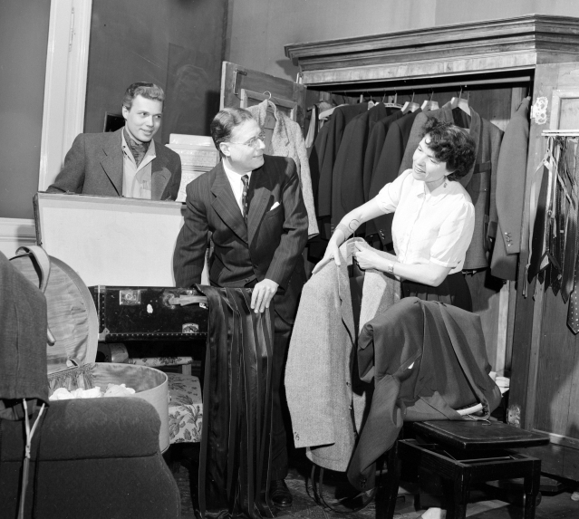 Karl Böhm (1894–1981), Austrian conductor, with wife Thea and son Karlheinz in his Vienna apartment.